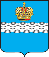 Kaluga, coat of arms